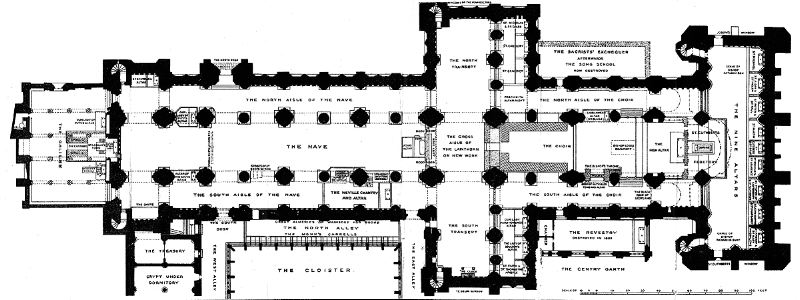 A plan of Durham Cathedral — in Durham, England; and included in a printed speech by William Greenwell